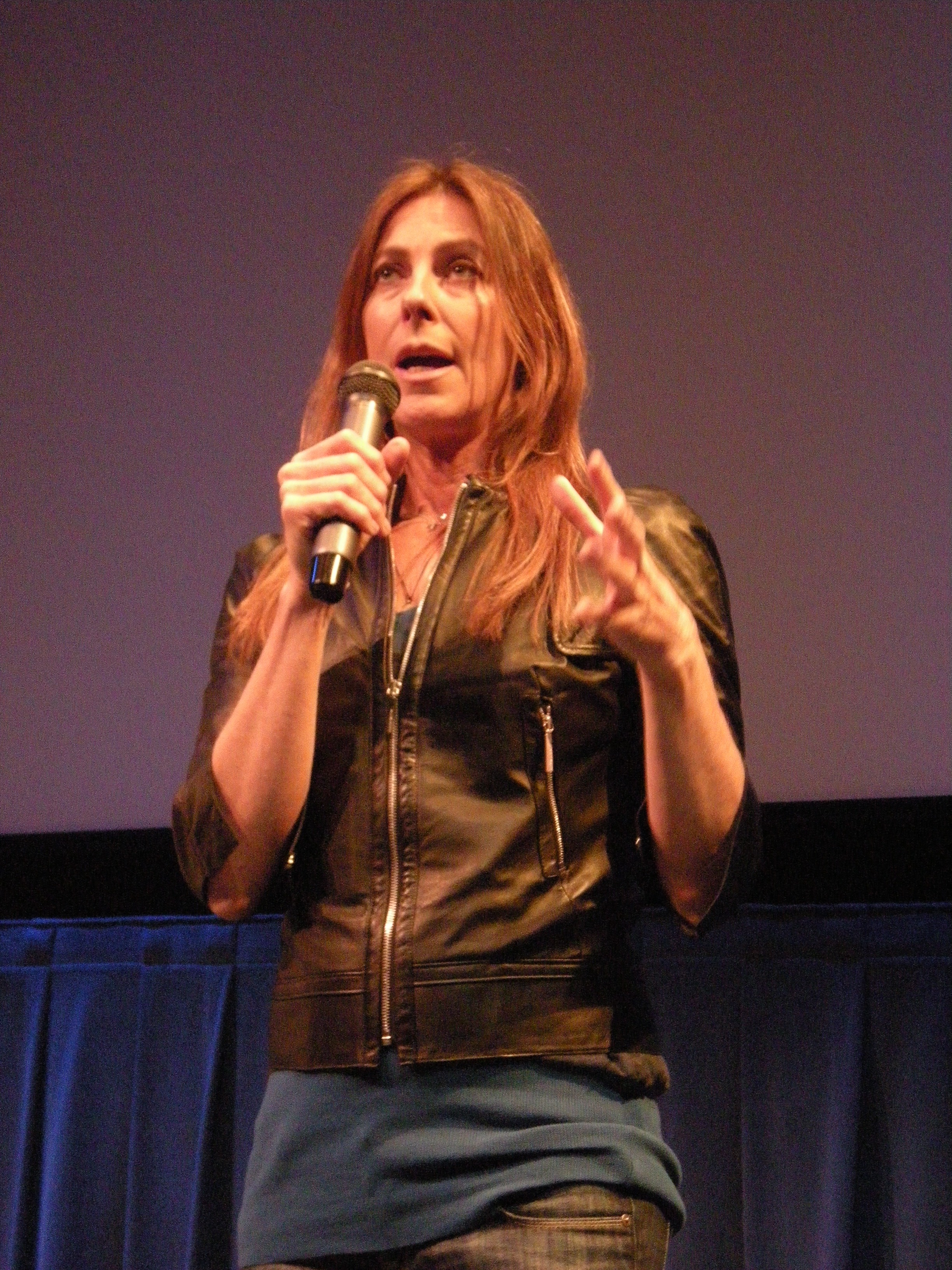 Film director Kathryn Bigelow after a showing of her film The Hurt Locker, 2009 Seattle International Film Festival.